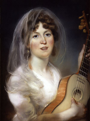 Elizabeth Bannister by John Russell 1799 ex. NPG